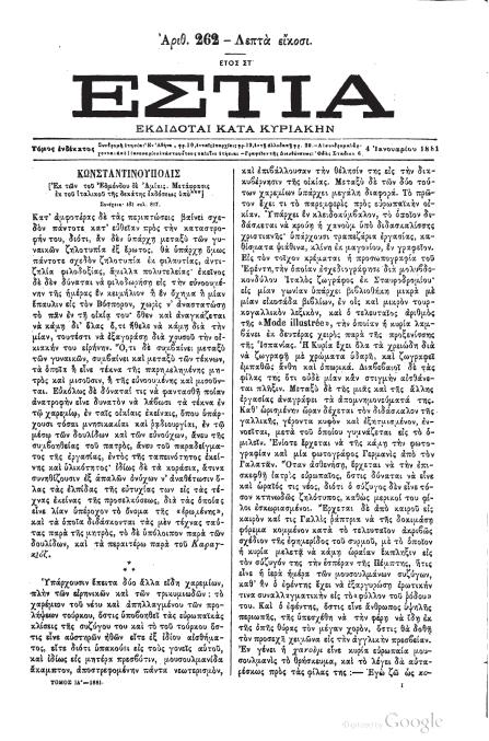 page from the greek paper "Εστία"